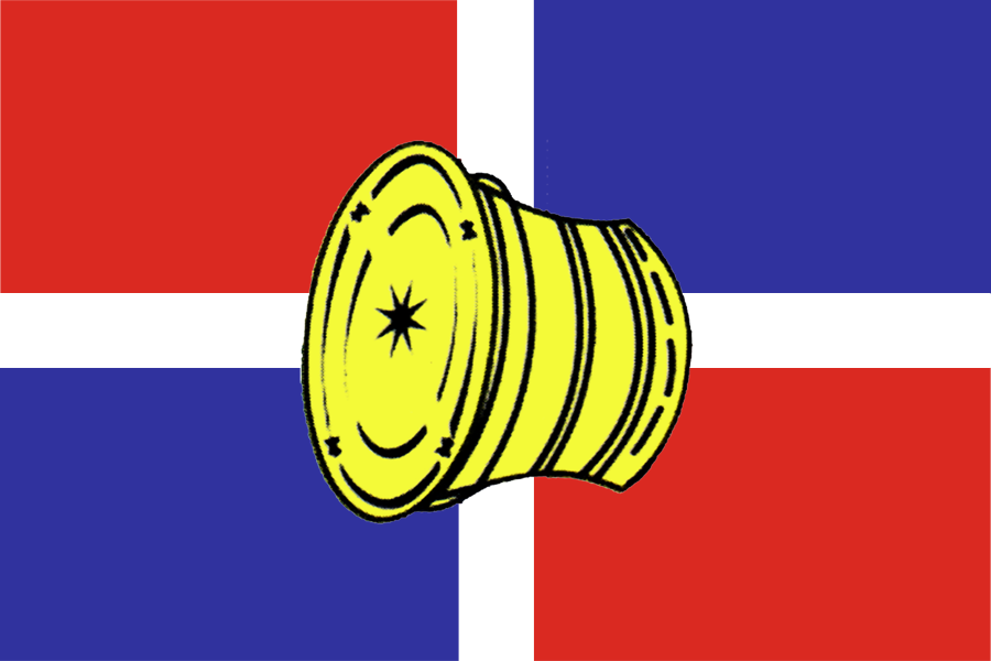 Flag of Karen Peoples Party မြန်မာဘာသာ: ကရင်ပြည်သူ့ပါတီ အလံ